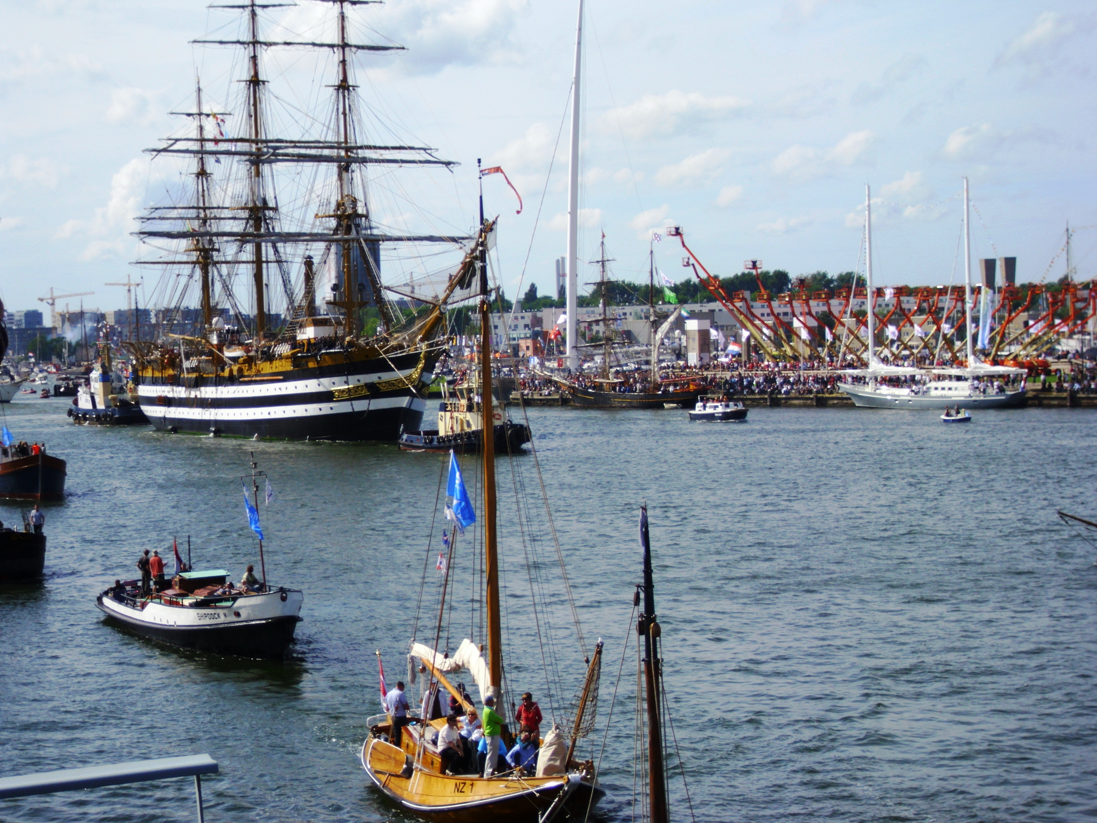 SAIL Amsterdam 2010. Left of the photo: the ship Amerigo Vespucci.